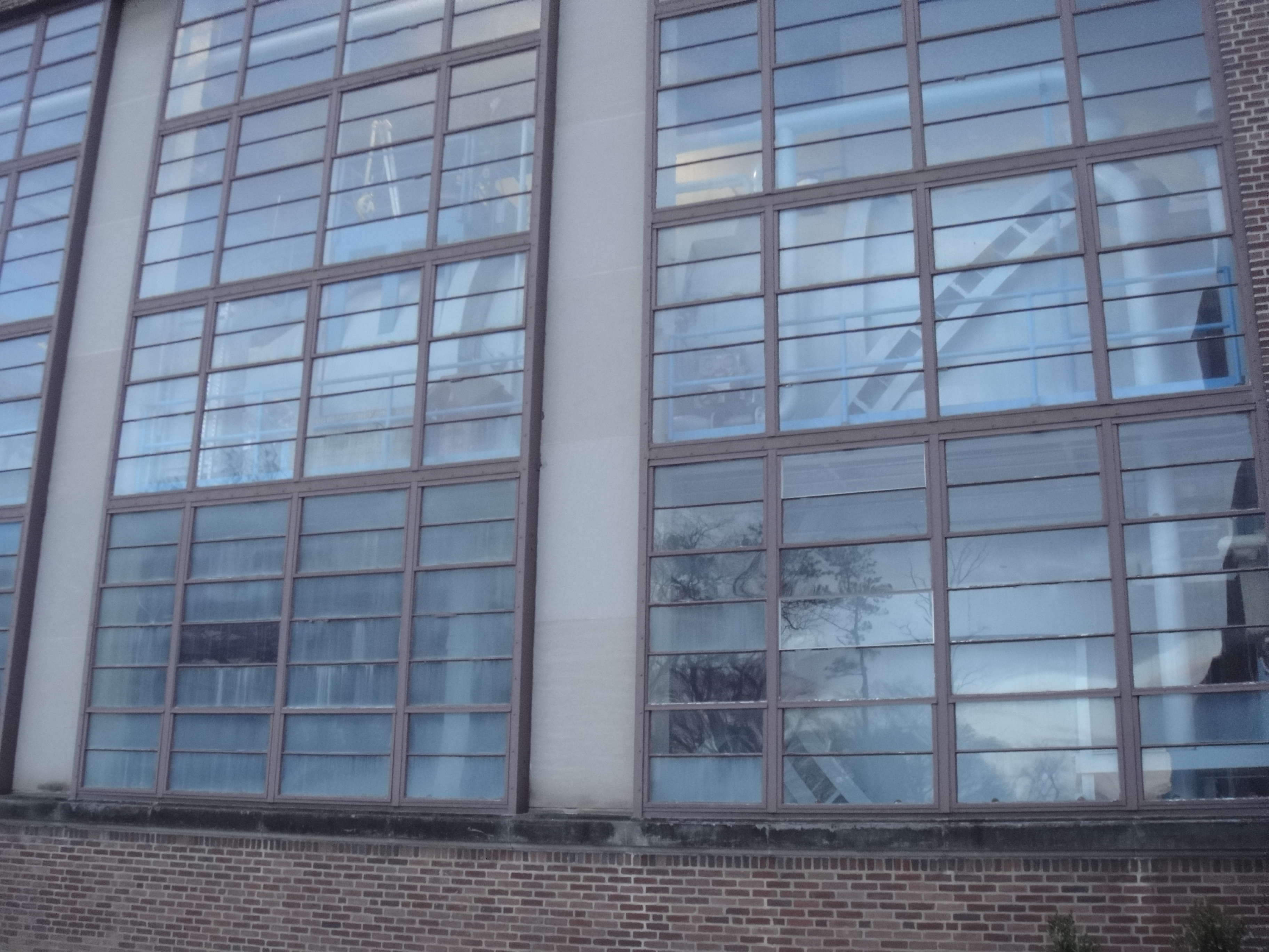 The water tunnel inside the Garfield Thomas Water Tunnel.